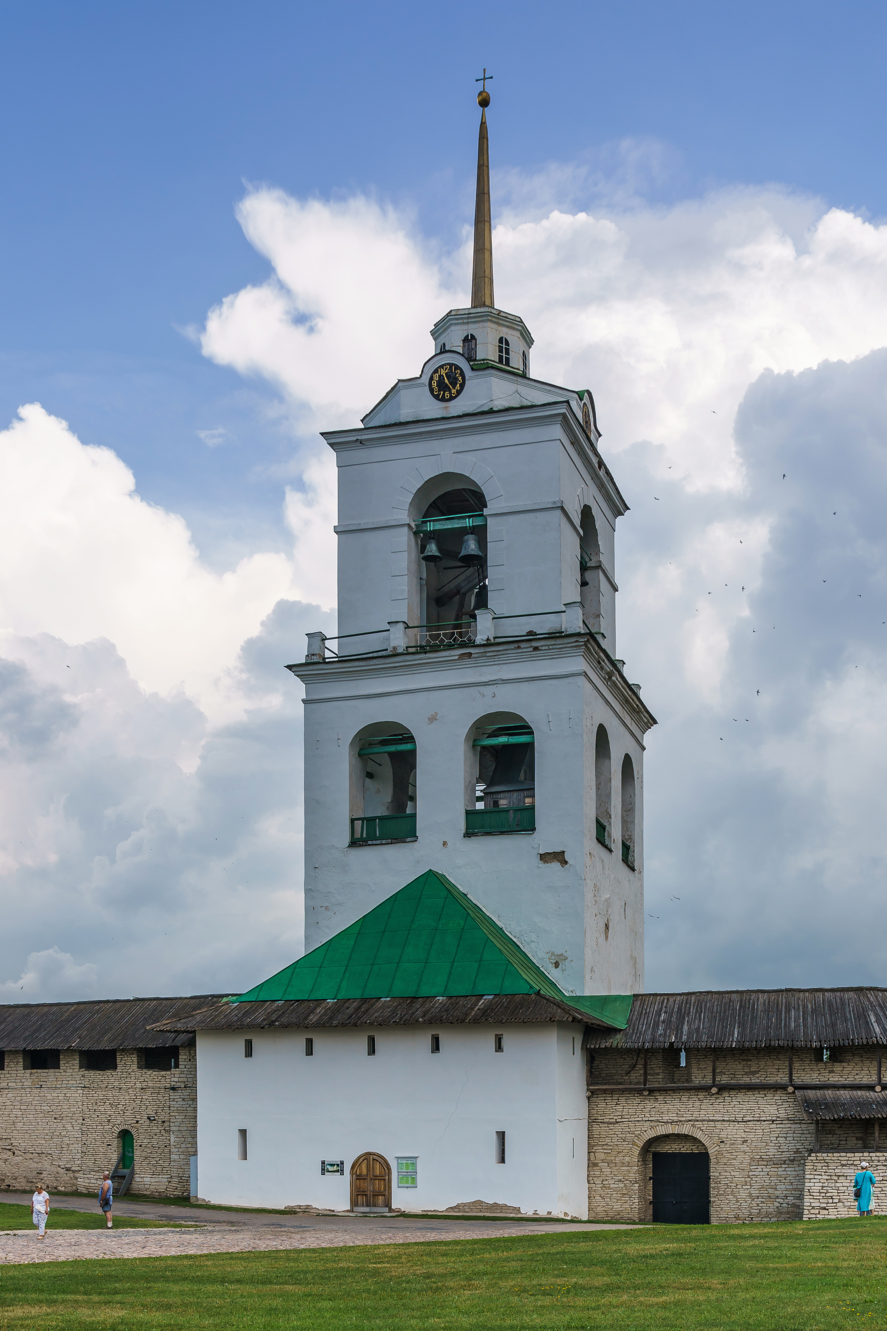 Bell tower in the Kremlin in Pskov, Russia